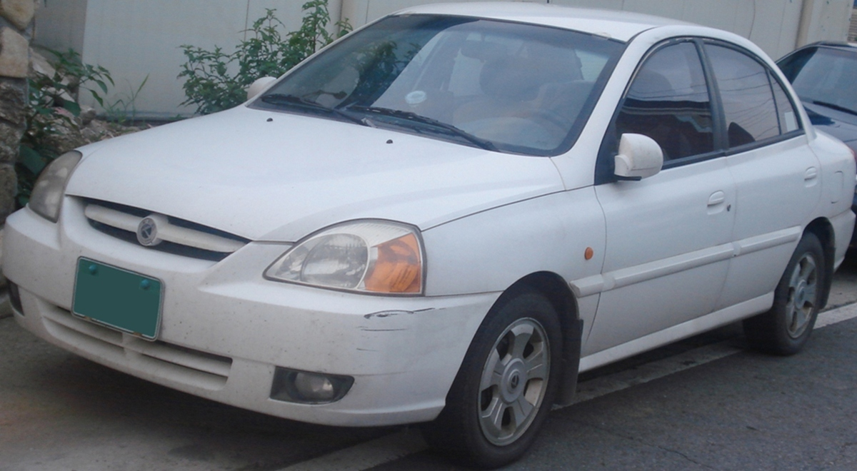 Kia Rio